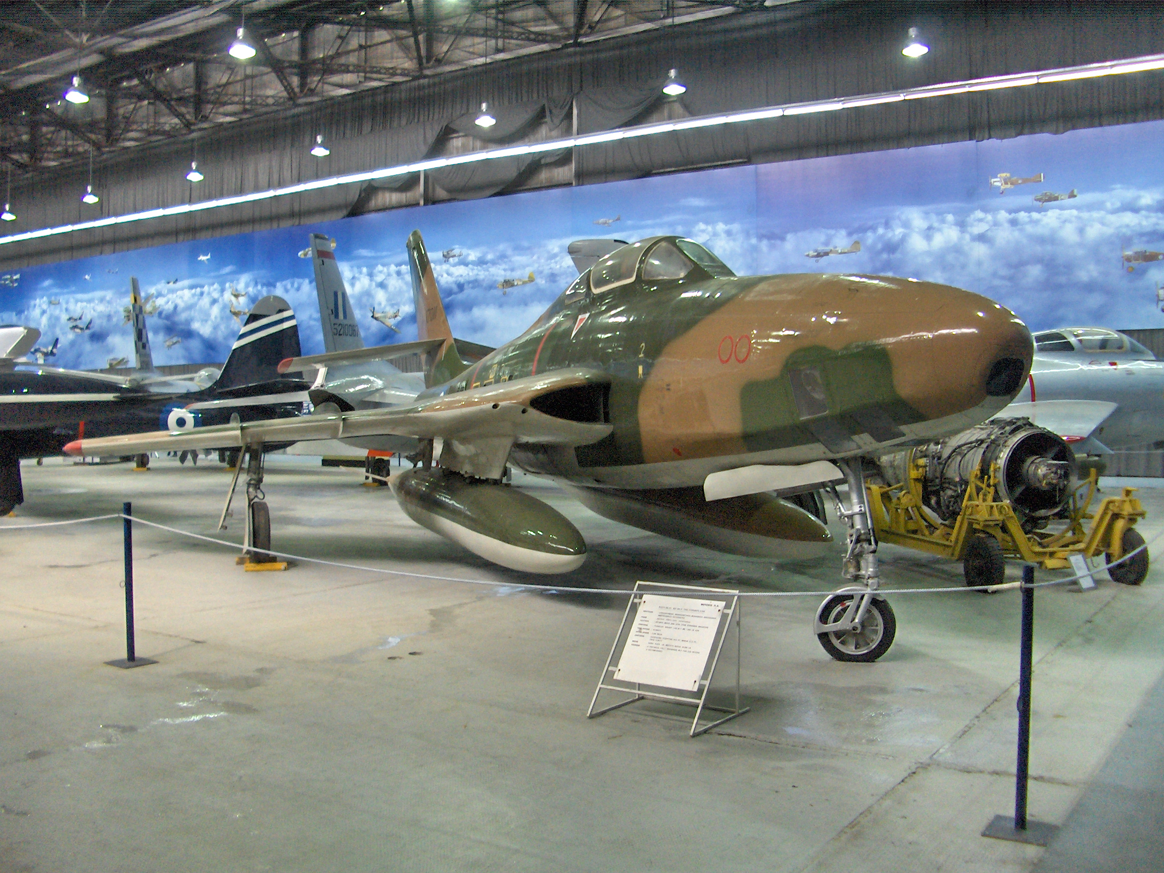 Exhibit at the Hellenic Air Force Museum at Dekelia (Tatoi), Athens, Greece.